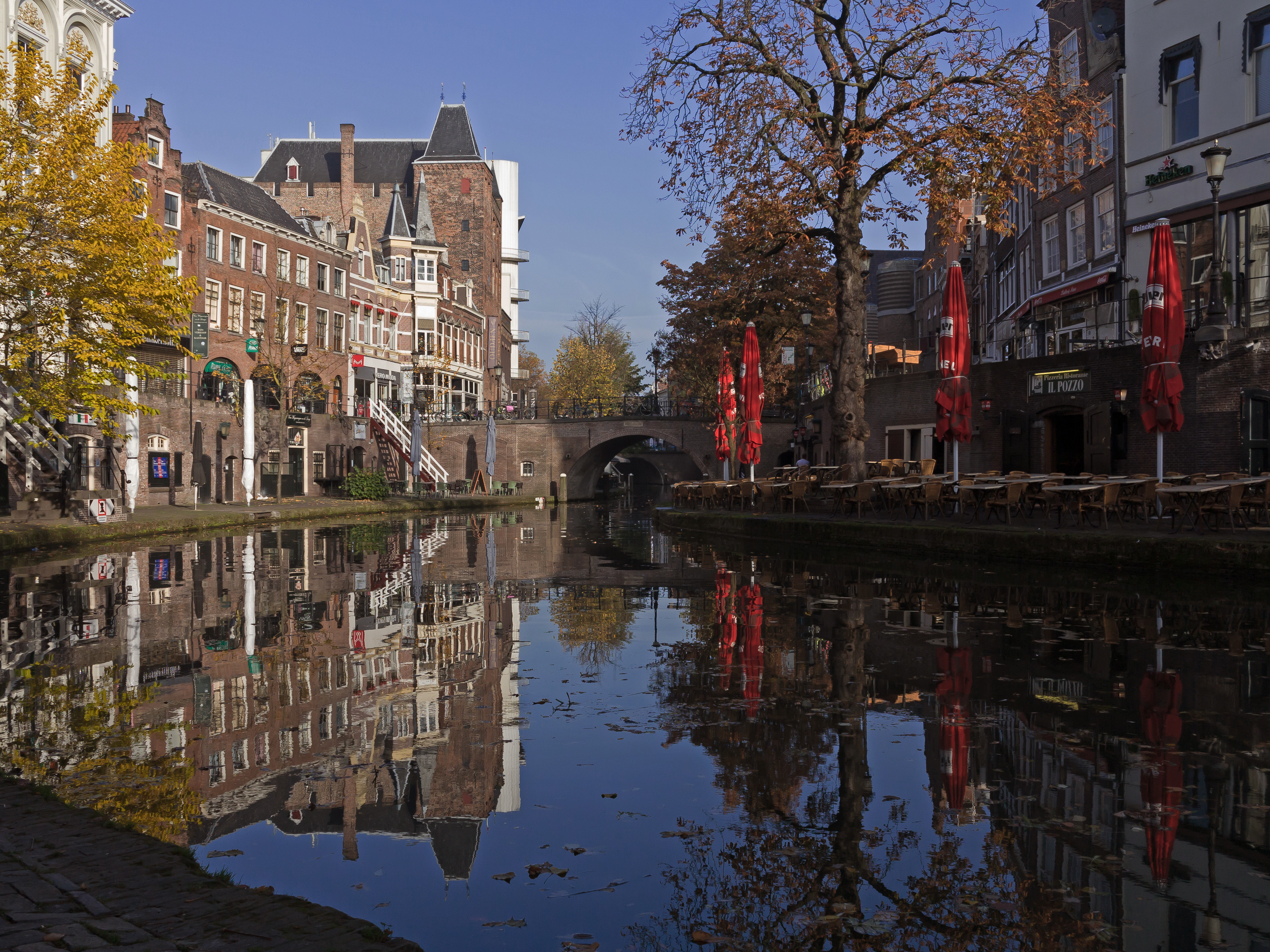 Utrecht, small bridge )de Jansbrug' with monumental houses